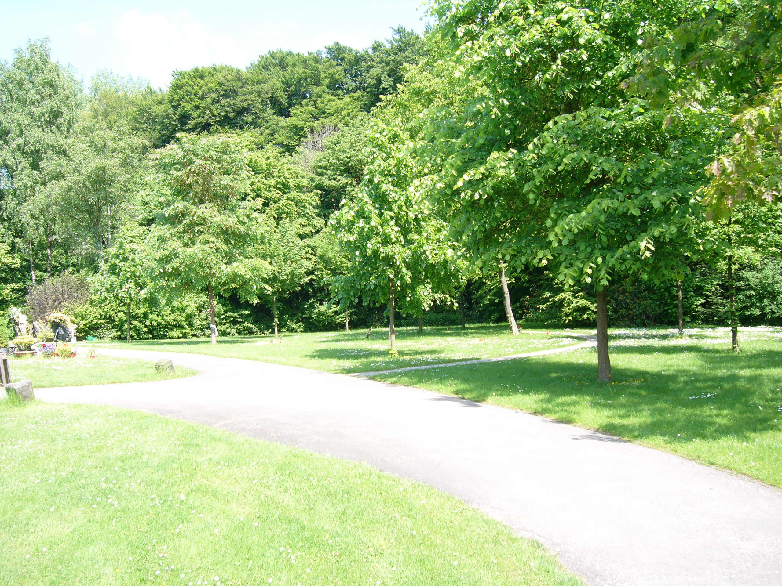 Forrest grave field of Gerresheim Cemetery